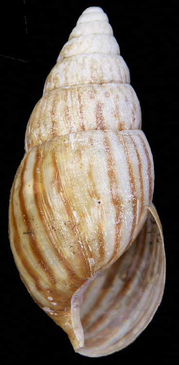 Photo of apertural view of the shell of Achatina vassei.